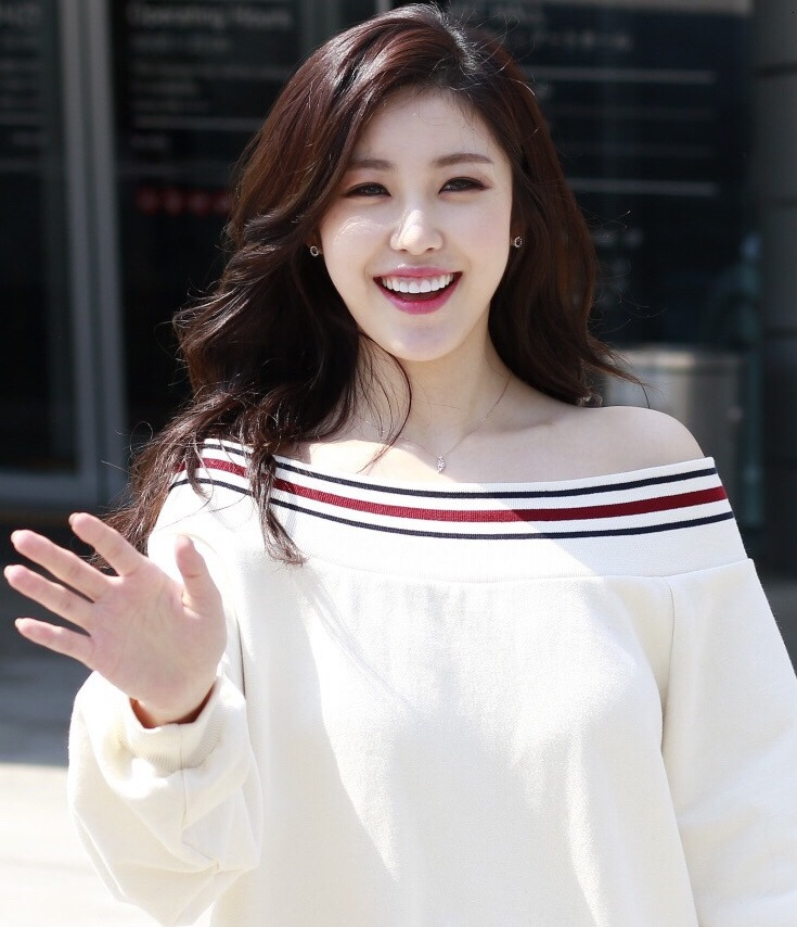 Jun Hyo-seong at Seoul Fashion Week, March 2016 (cropped from original)